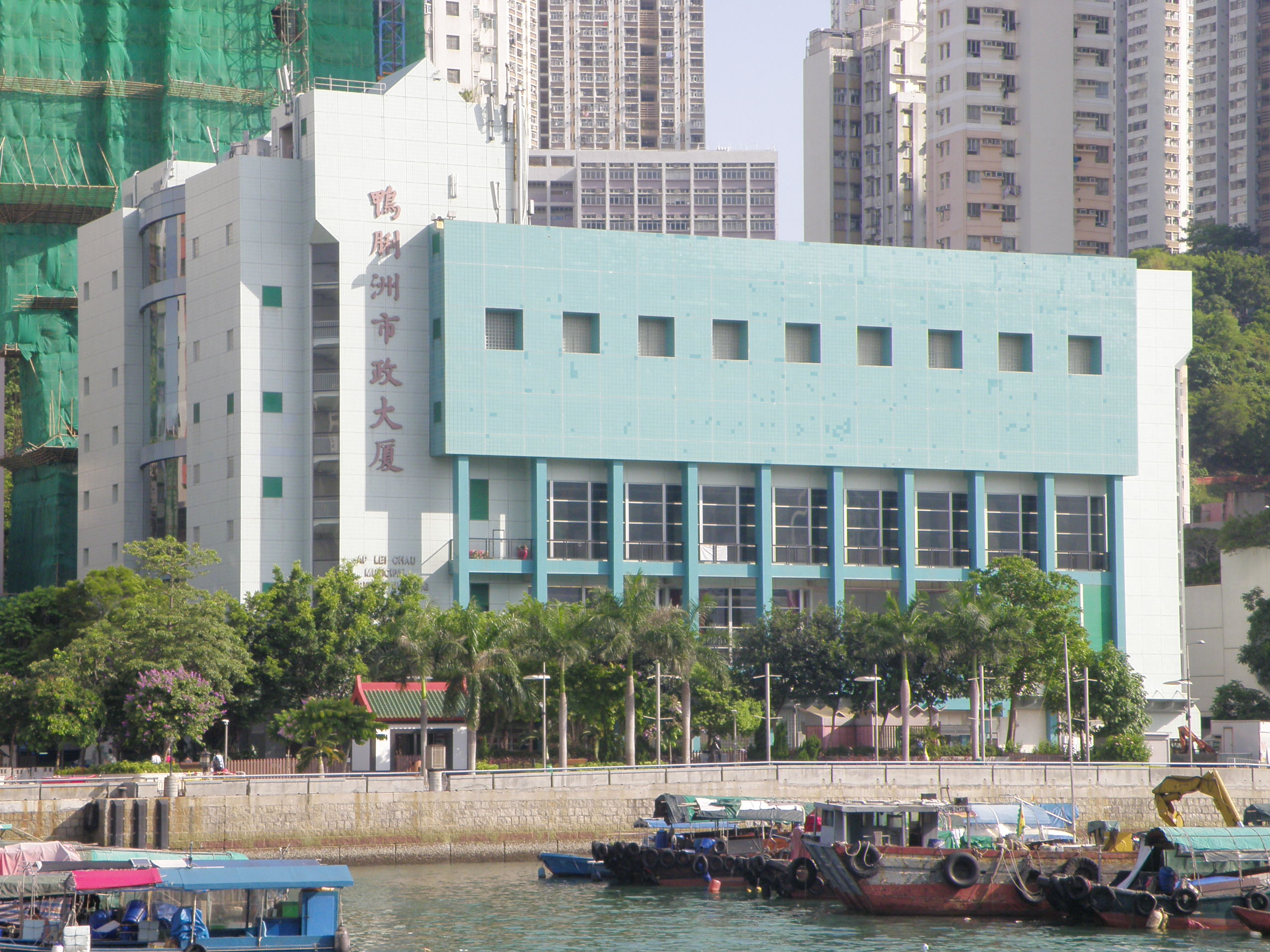 Municipal Services Building in Ap Lei Chau, Hong Kong.